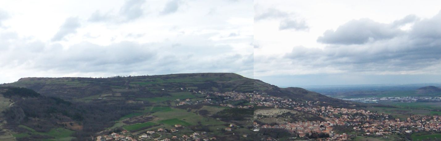 Modern view of the Plateau of Gergovia as seen from Le Crest (composite image). The historic battlefield was for the most part in the image's center-right, where today the village of La Roche-Blanche extends uphill.